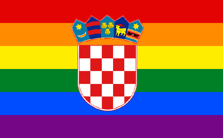 Flag GLBT with a coats of arms of Croatia.